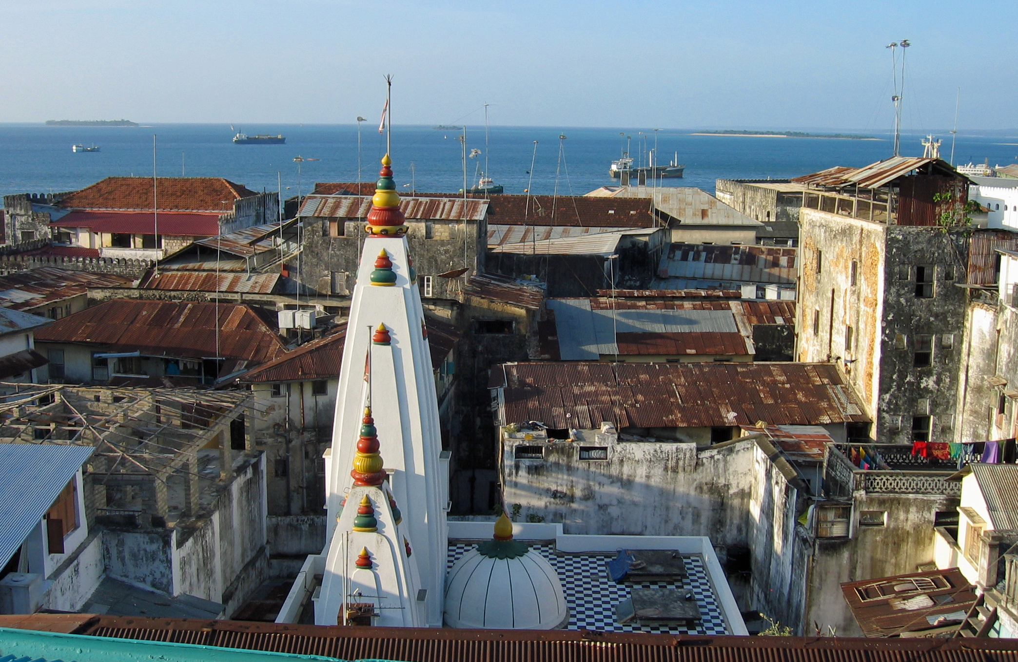 Hindu temple in Stone Town — the historic district of Zanzibar City, Unguja island (Zanzibar Island). Zanzibar Archipelago, Tanzania, East Africa.